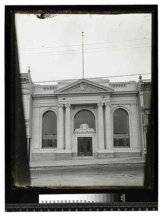 An old building on the Arcata Plaza known as the Bank of Arcata.